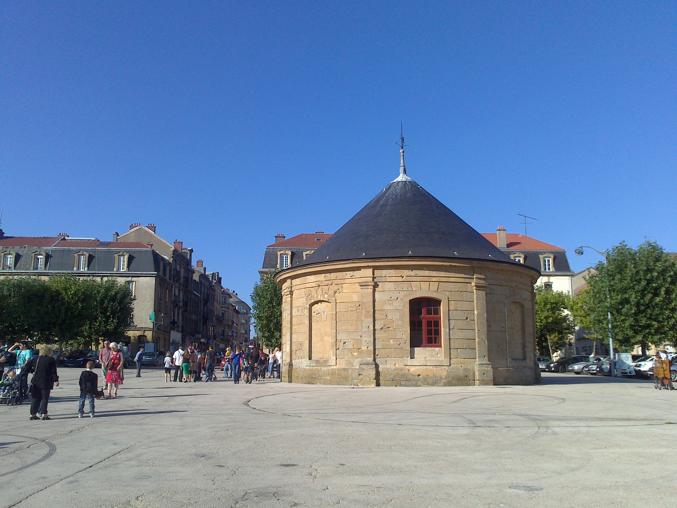 Puits de Siège